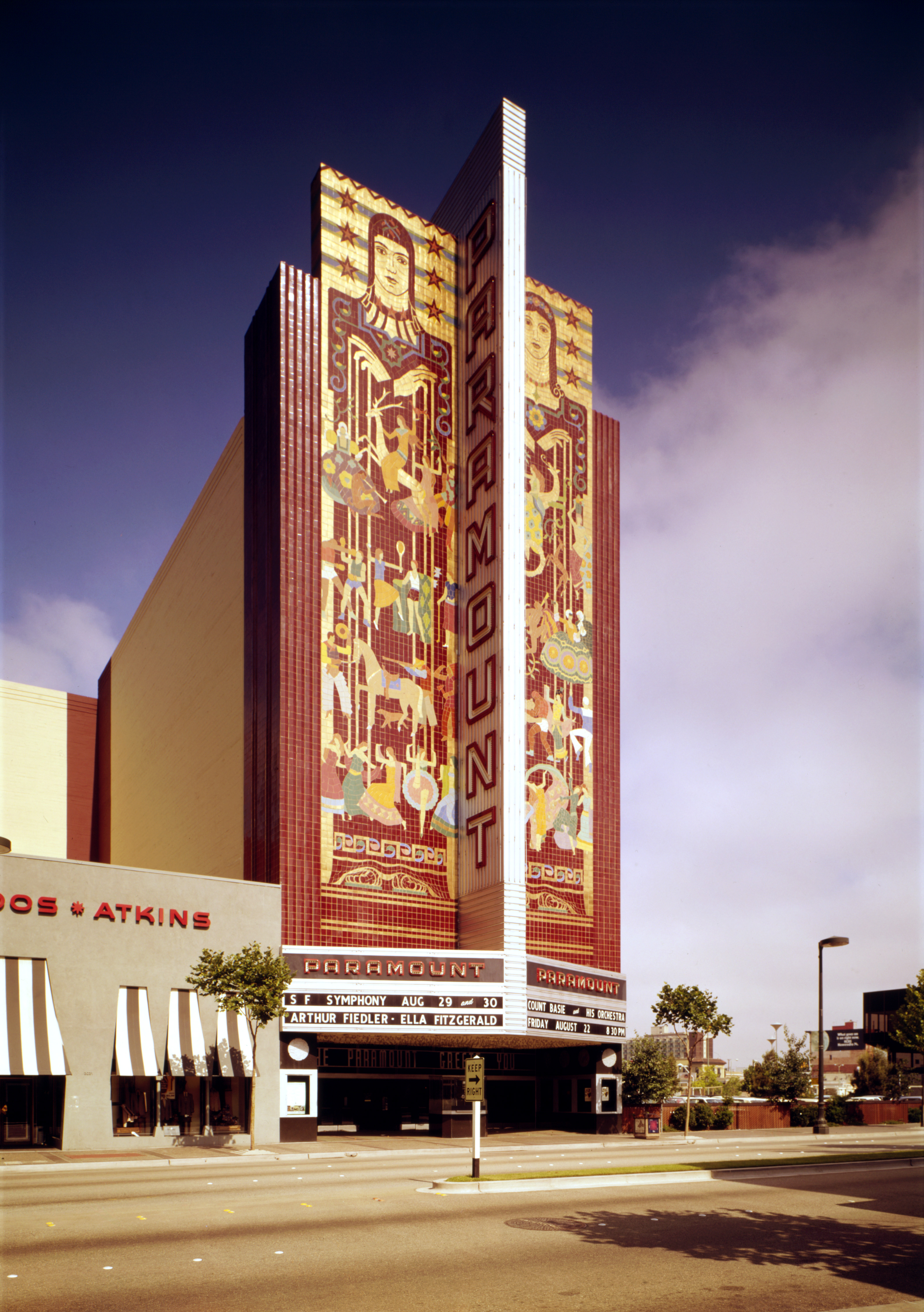 The Paramount Theatre is one of the finest remaining examples of Art Deco design in the United States. It was one of the first Depression-era buildings to incorporate and integrate the work of numerous creative artists into its architecture and is particularly note-worthy for its successful orchestration of the various artistic disciplines into an original and harmonious whole. The theatre was painstakingly restored in 1973 and was entered in the National Register of Historic Places on August 14th of that year. On May 5, 1977, the Paramount Theatre was declared a National Historic Landmark.